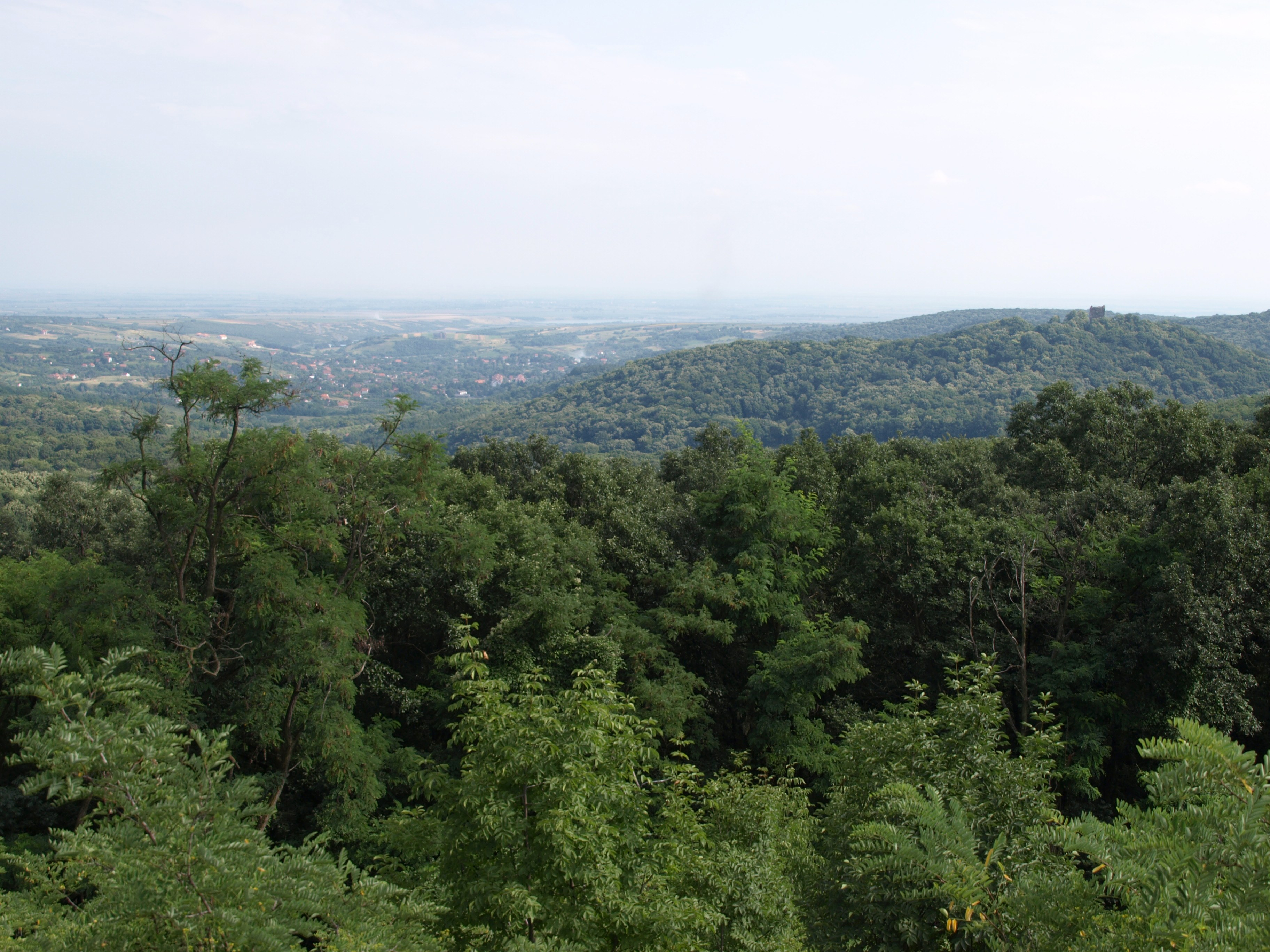 View over the Fruška Gora mountains in Serbia